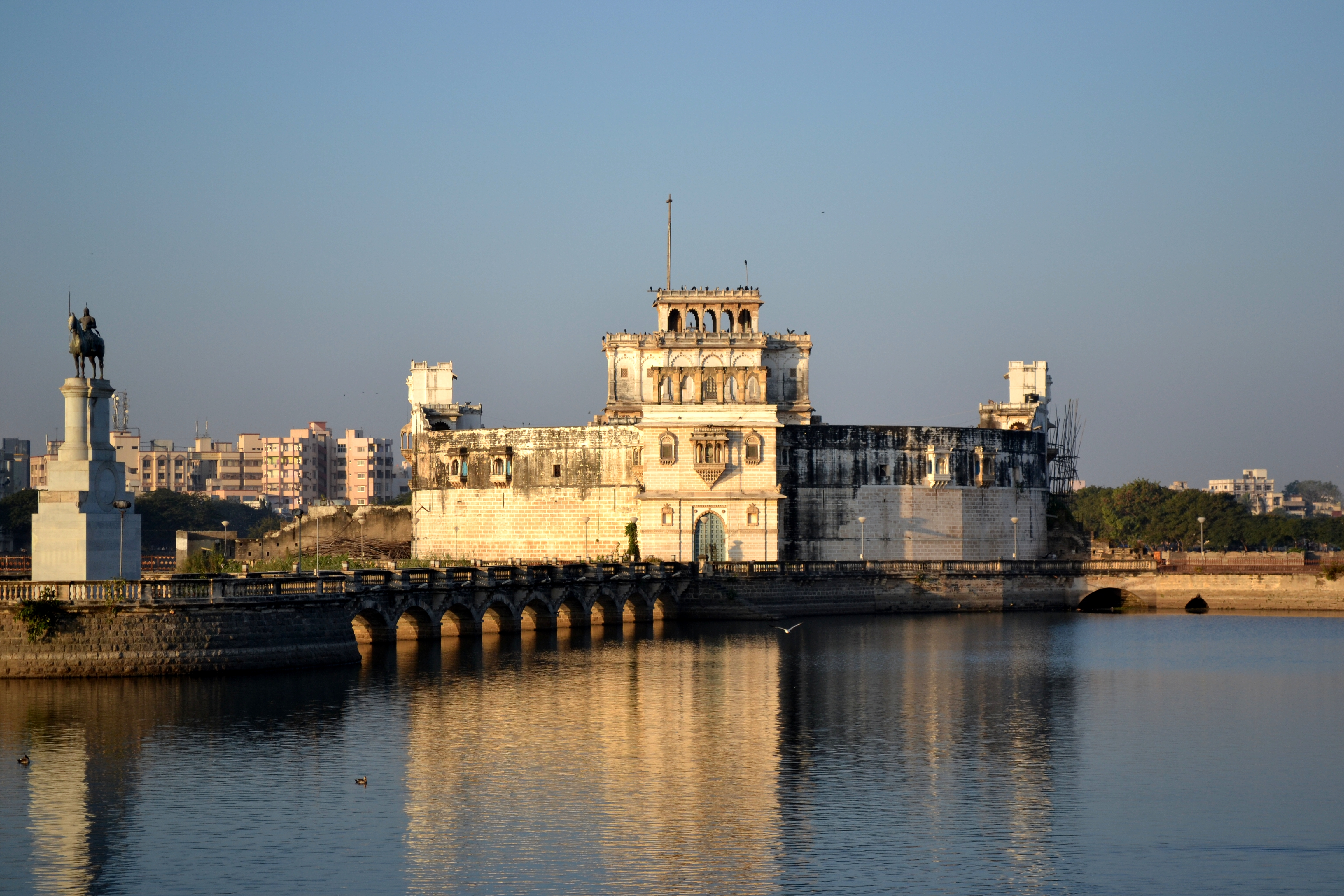 The view of the Lakhota Museum Jamnagar from the banks of the lake.